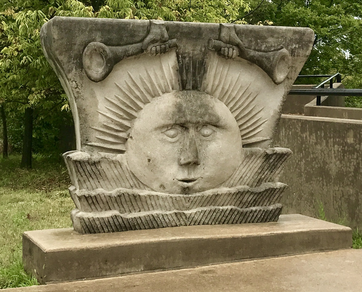 Temple Quarry statue in Nauvoo, Illinois